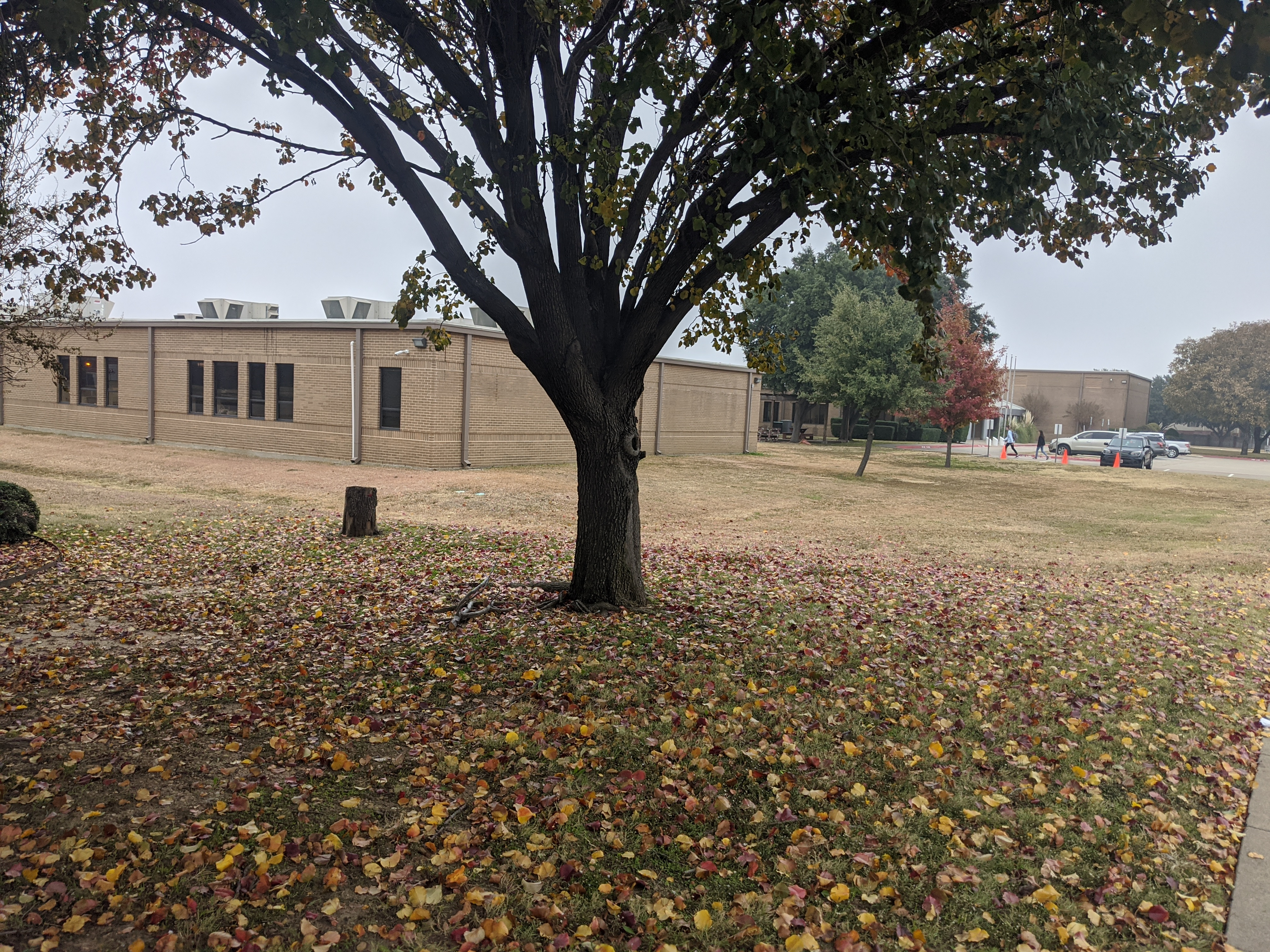 School Looking Northwest